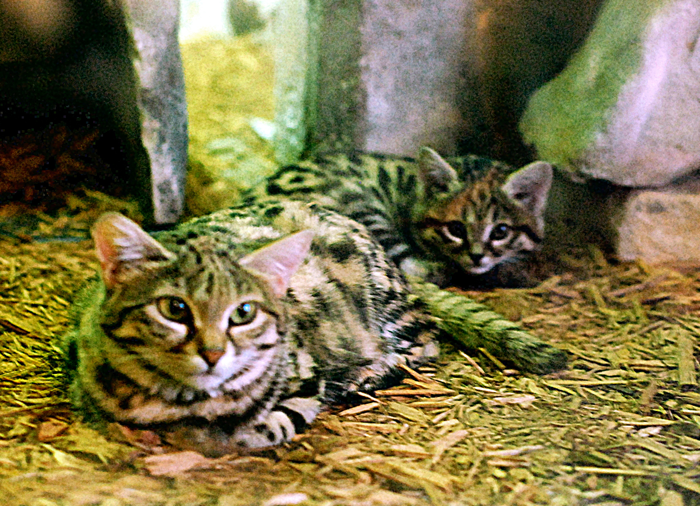 A Black-footed Cat (Felis nigripes) and its kitten in Cleveland Zoo.